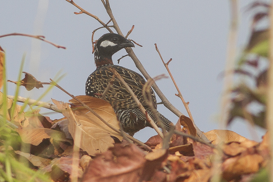 The species Black Francolin had been photographed from Nainadevi Himalayan Bird Conservation Reserve in Uttarakhand, India on 29.05.2016.